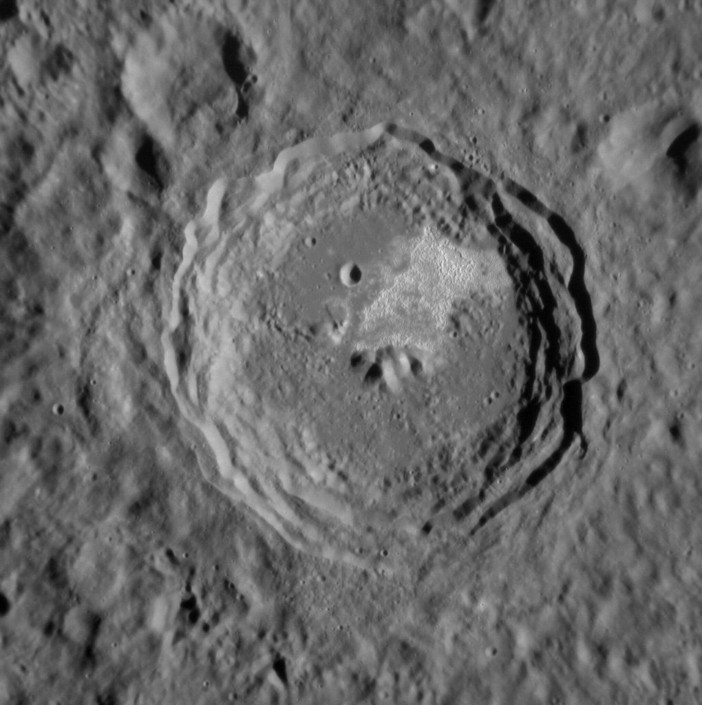 Theophanes crater on Mercury. MESSENGER Narrow Angle Camera. Approximate north is up. Emission Angle: 2.3 Incidence Angle: 69.4 Latitude: -5.1 Longitude: 217.2 Phase Angle: 71.6